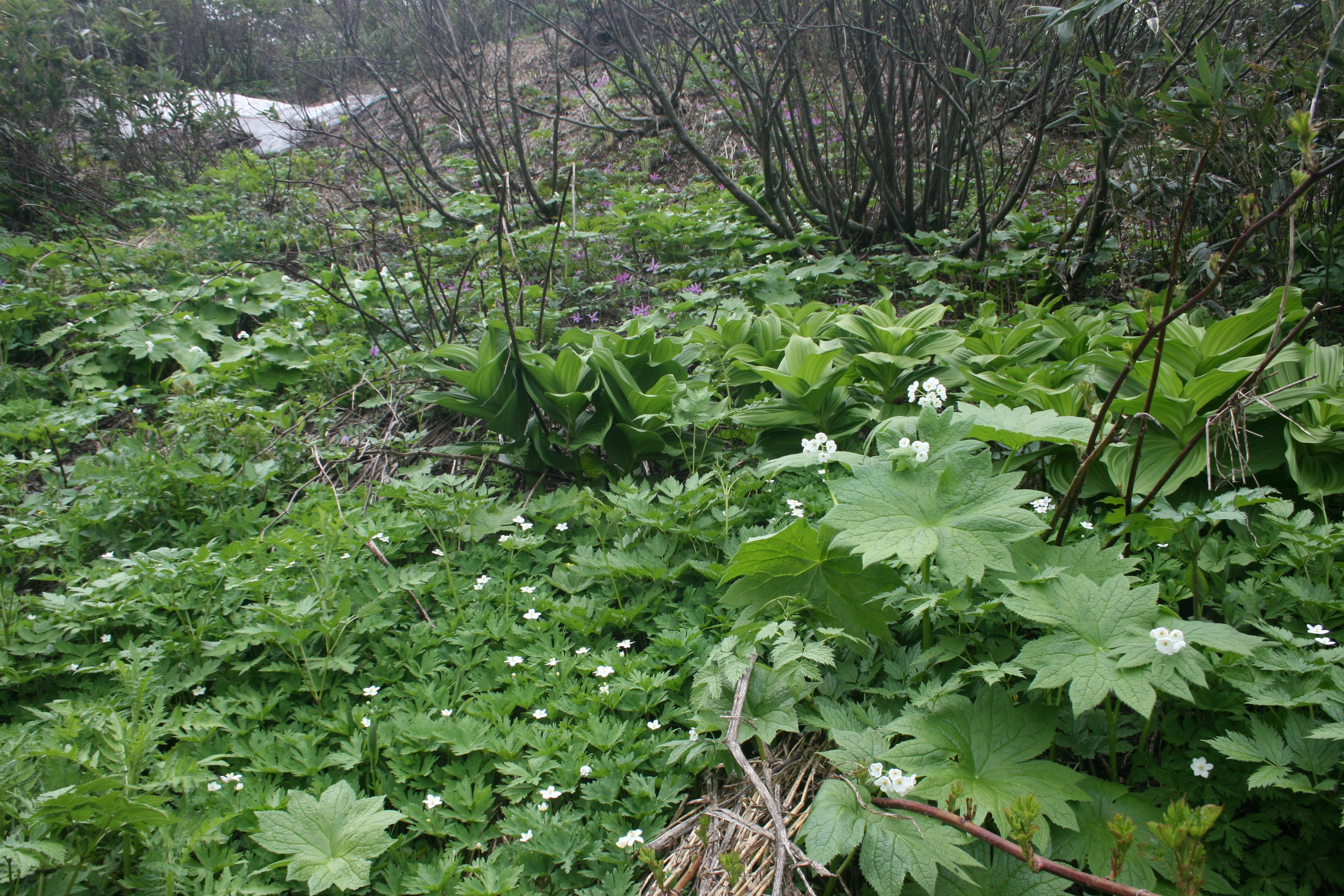 Spring ephemeral in Ryōhaku Mountains, Nanto, Toyama Prefecture, Japan.